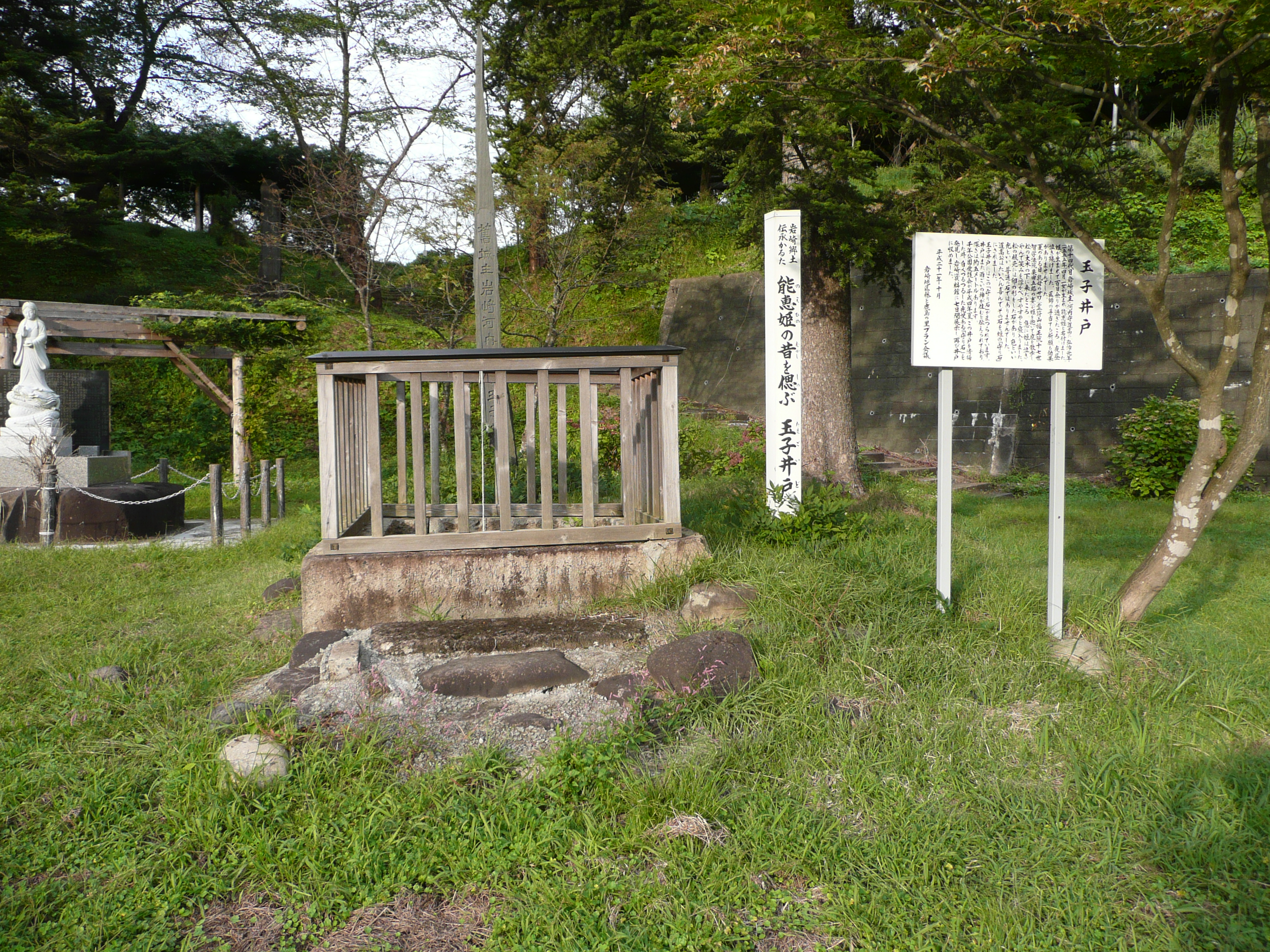 岩崎城の三の丸にある玉子井戸